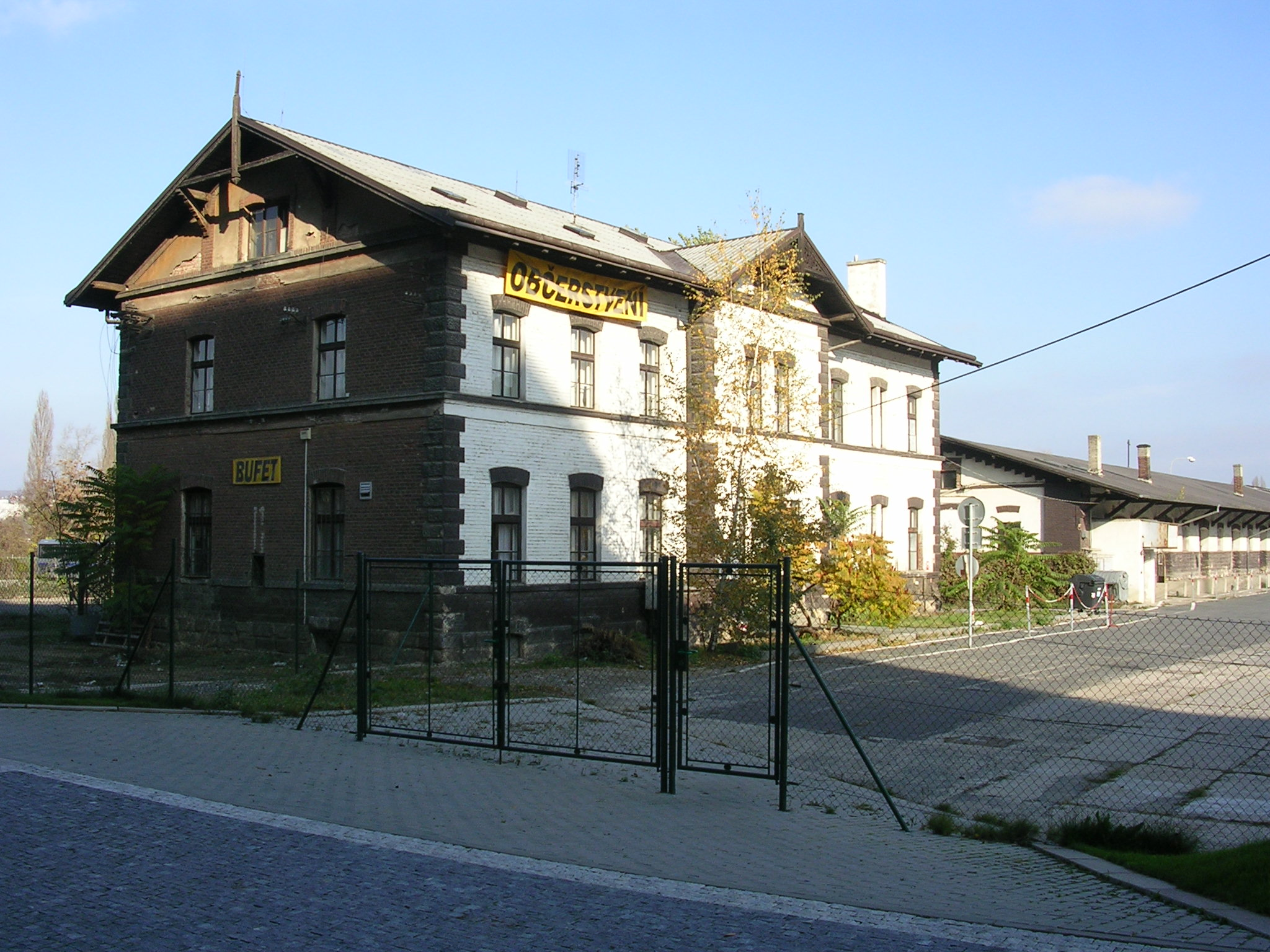 Karlín, Prague. Former train station.